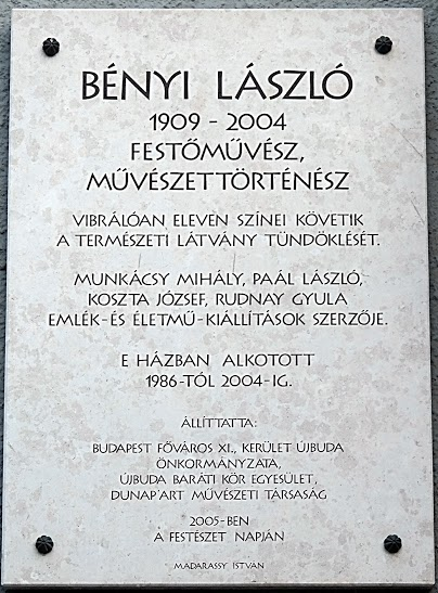 László Bényi commemorative plaque in Budapest District XI, Bartók Béla Street No 78.